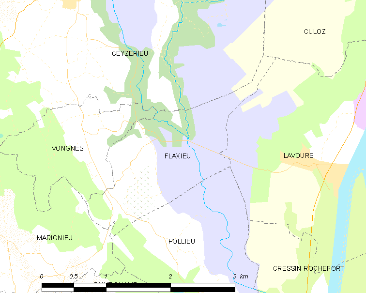 Map of French commune: Flaxieu Map commune FR insee code 01162.png